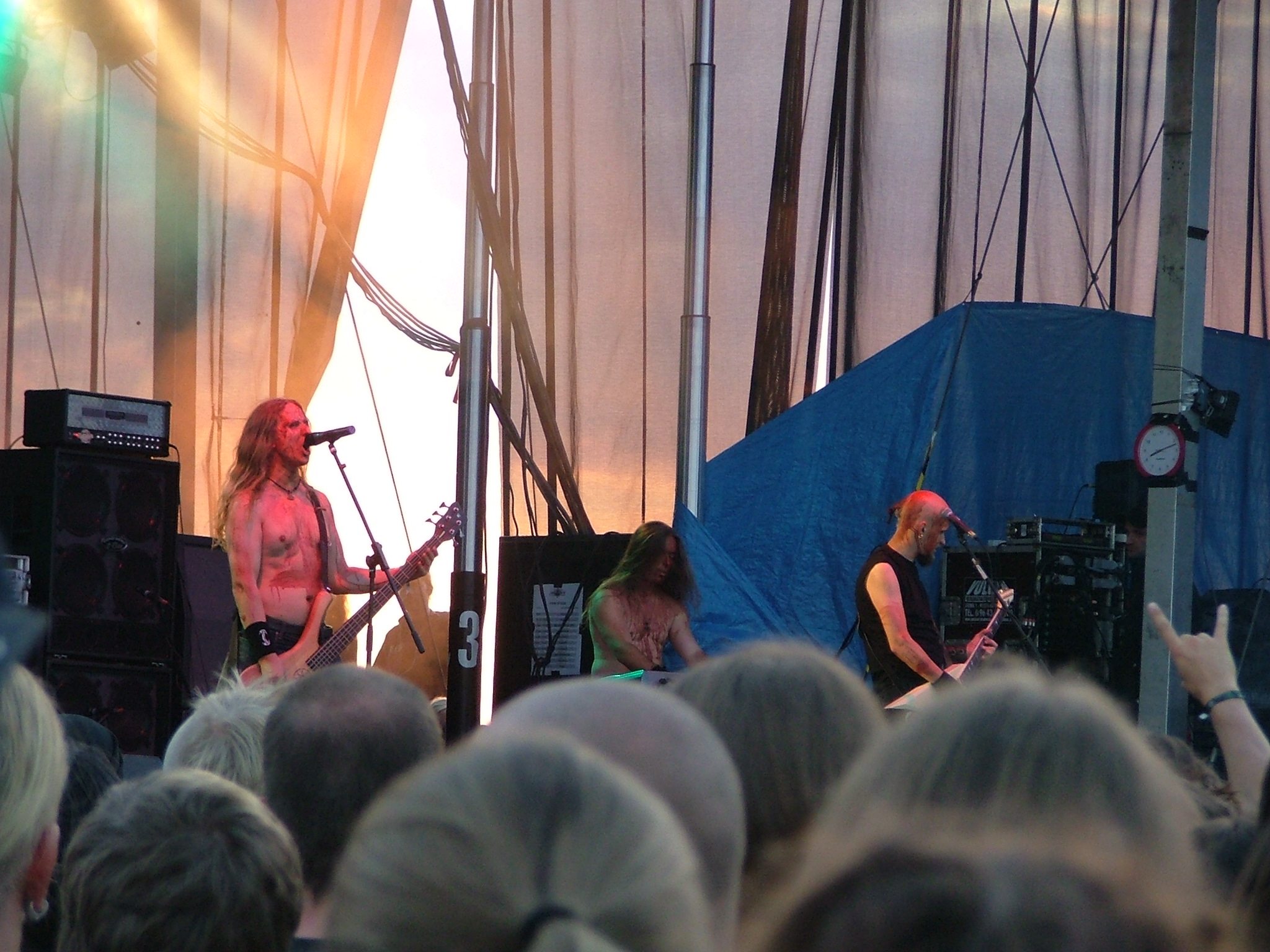 Finnish folk/pagan metal band Moonsorrow at the Summer Breeze in Dinkelsbühl